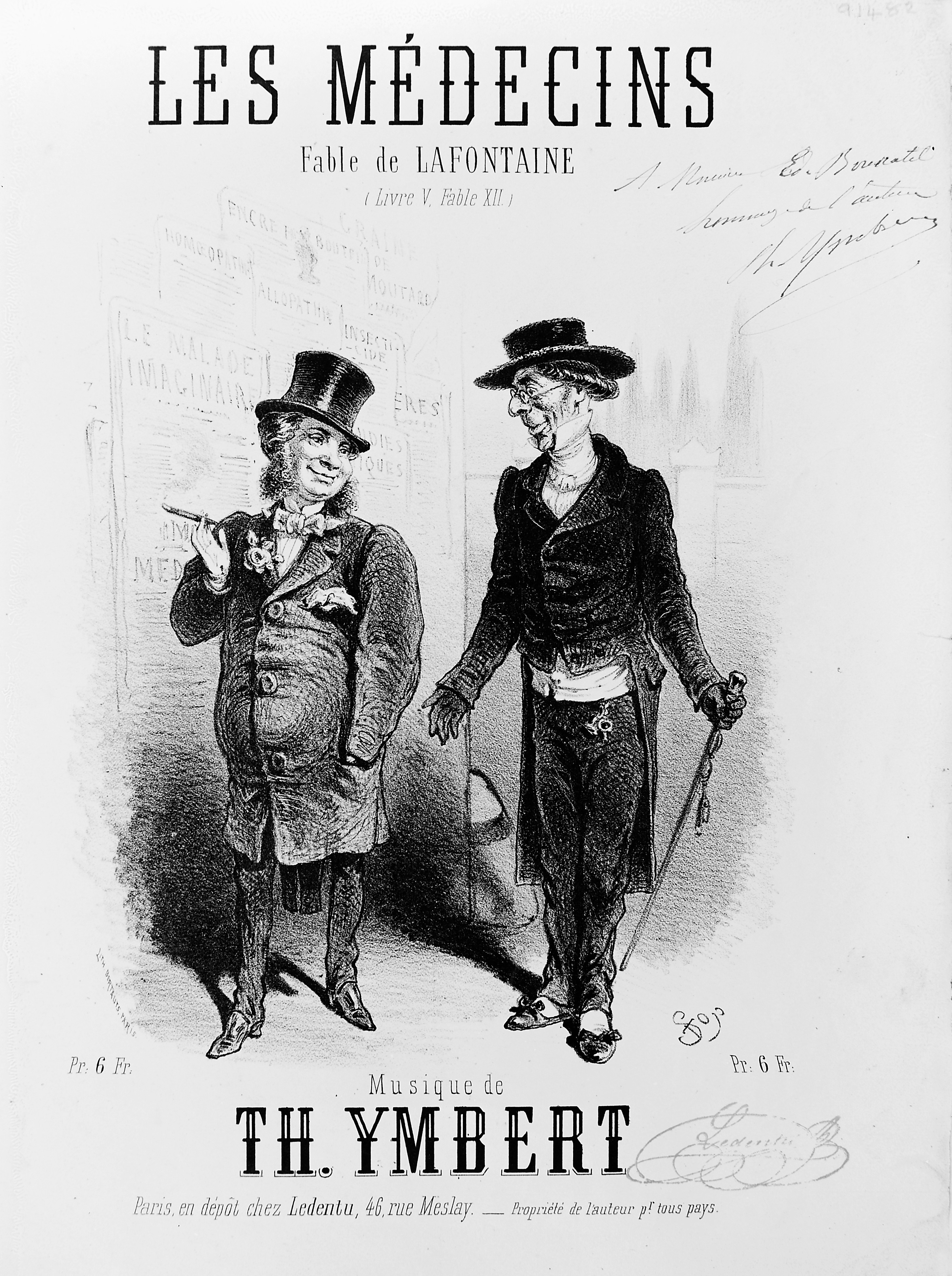 'Les Medicins'. Fable de la Fontaine. Music by Th. Ymbert. Wellcome Images Keywords: Caricatures; Songs